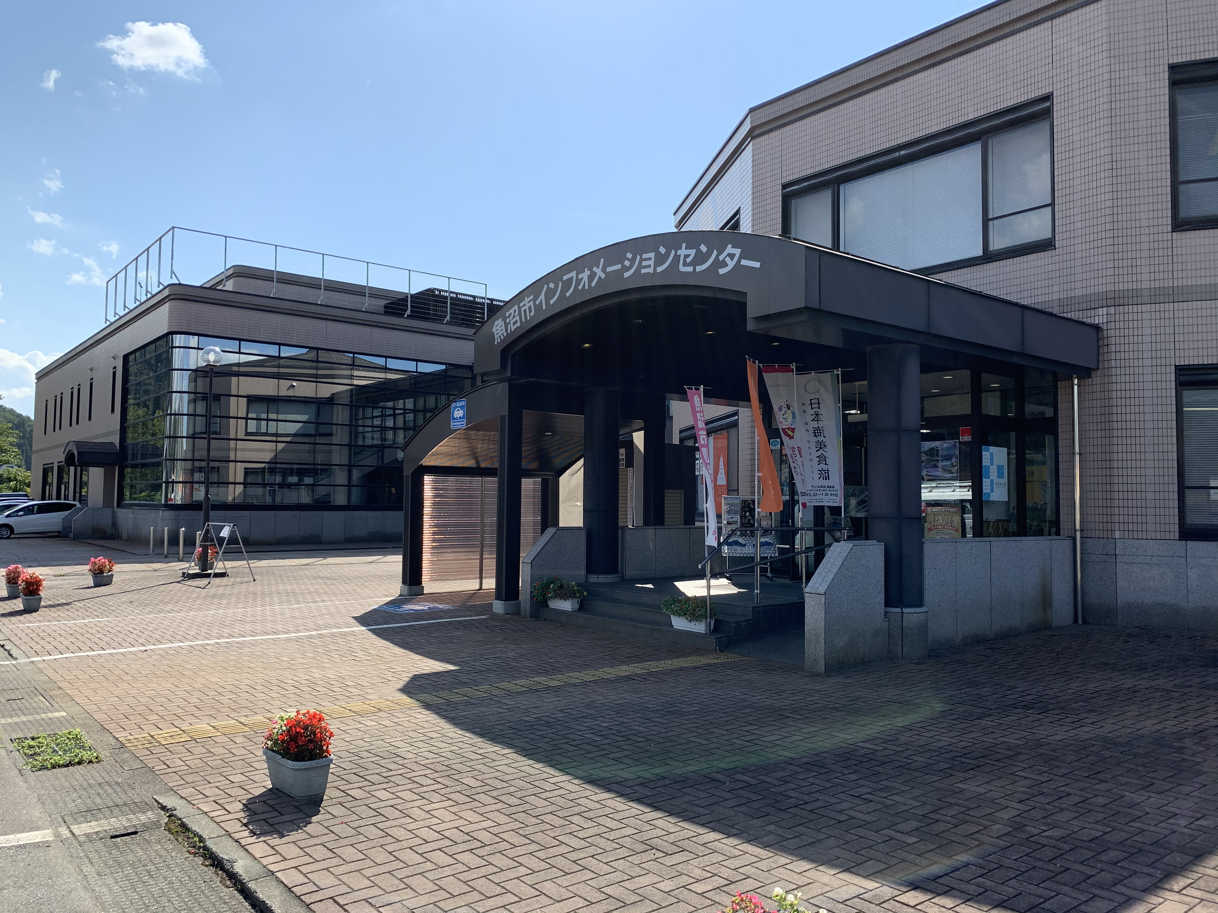 Information Center, Yunotani, Roadside Station, Niigata, Japan.